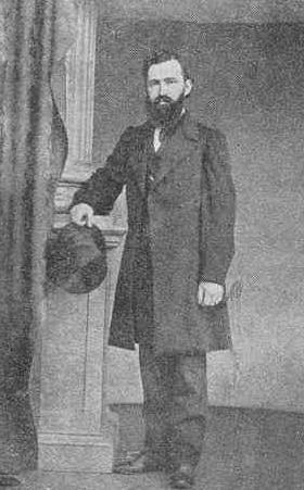 The Finnish publicist Theodor Sederholm (1832-1881).